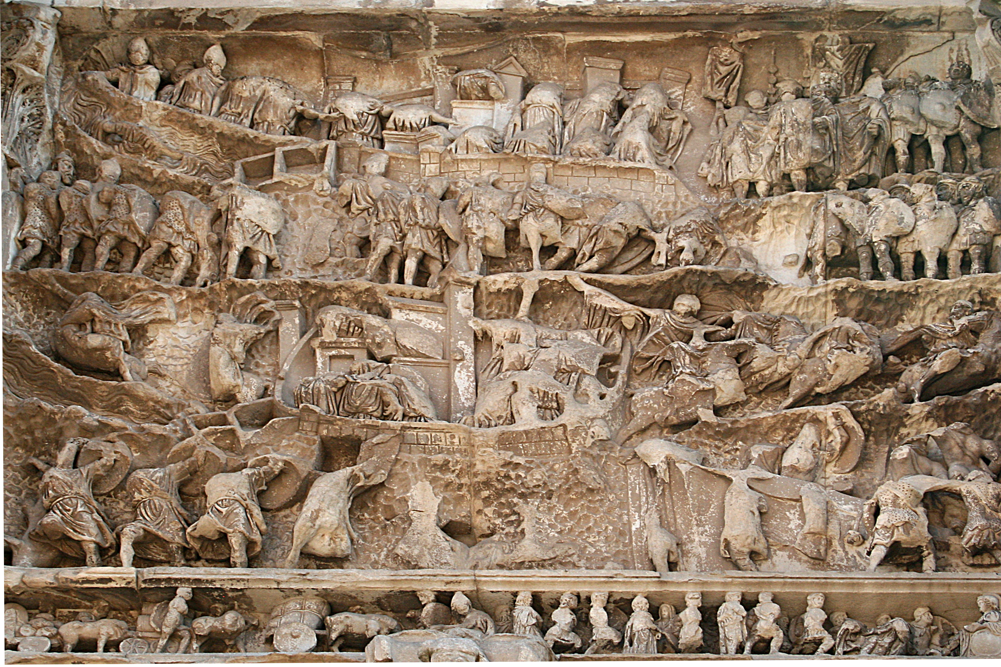 Third panel (North-West) of the ’ Arch of Septimius Severus decorated with the bas-relief representing "the approach of the Romans to Seleucia, from where the Parthians fled on horseback". - Forum Romano to Rome, Italy.